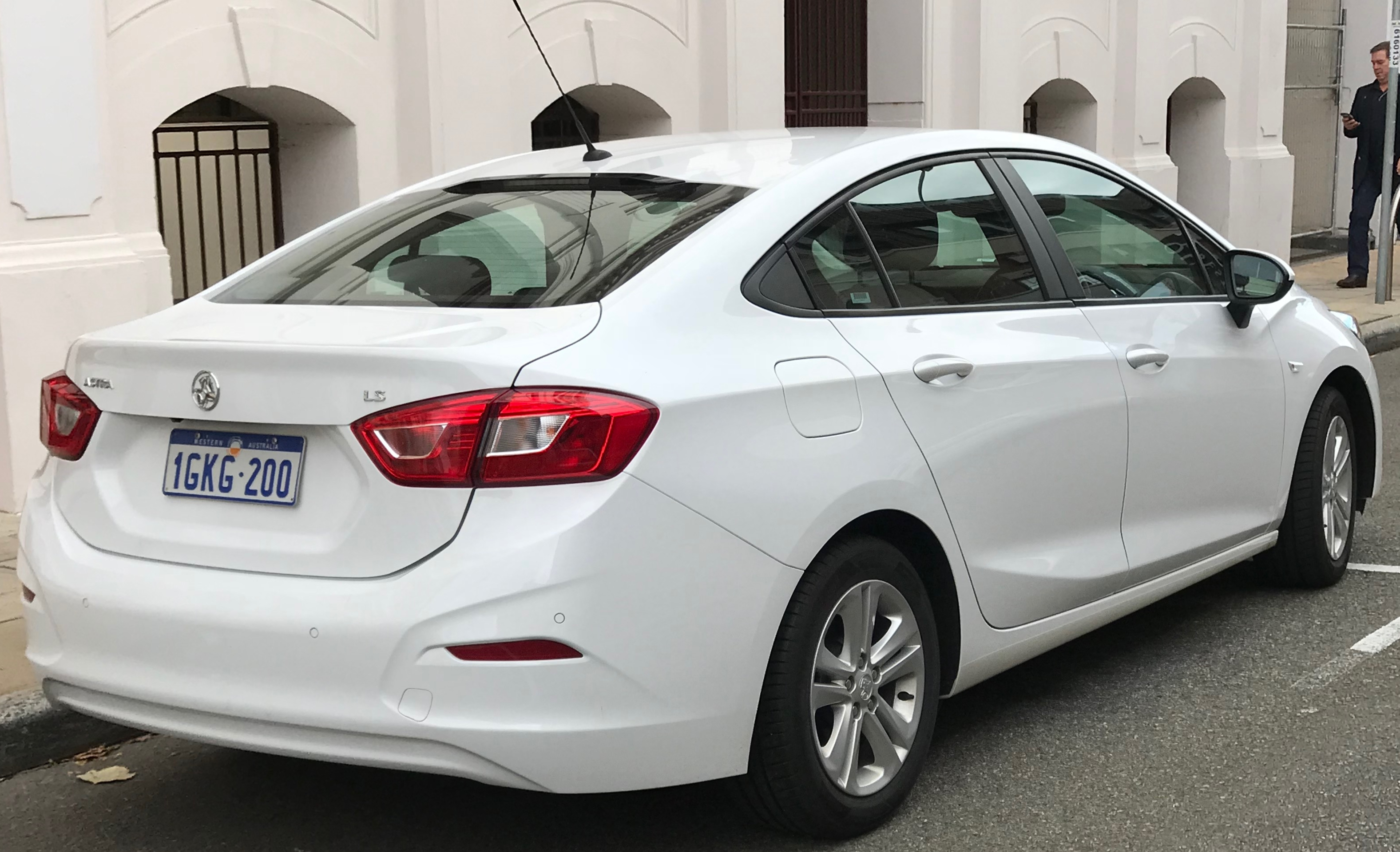 2018 Holden Astra (BL) LS sedan. Photographed in Fremantle, Western Australia, Australia.